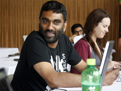 Kumi Naidoo, one of the founders — and now a Co-Chair — of GCAP, a coalition of anti-poverty organizations, briefed G20 Voice bloggers on global poverty and related issues. (Photo by Julie C. Roth)